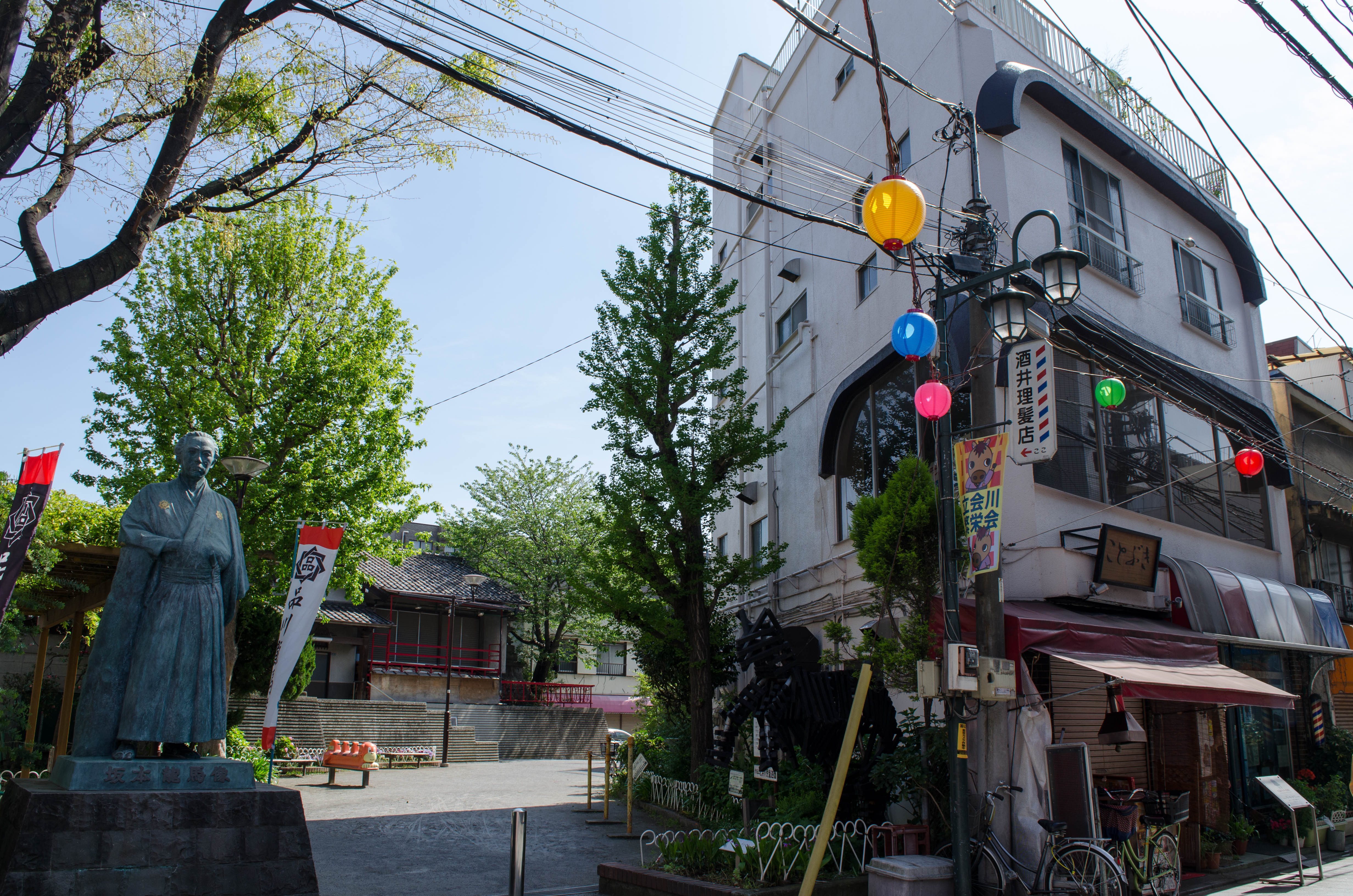 Kita-Hamakawa Childrens' Park at Shinagawa, Tokyo.